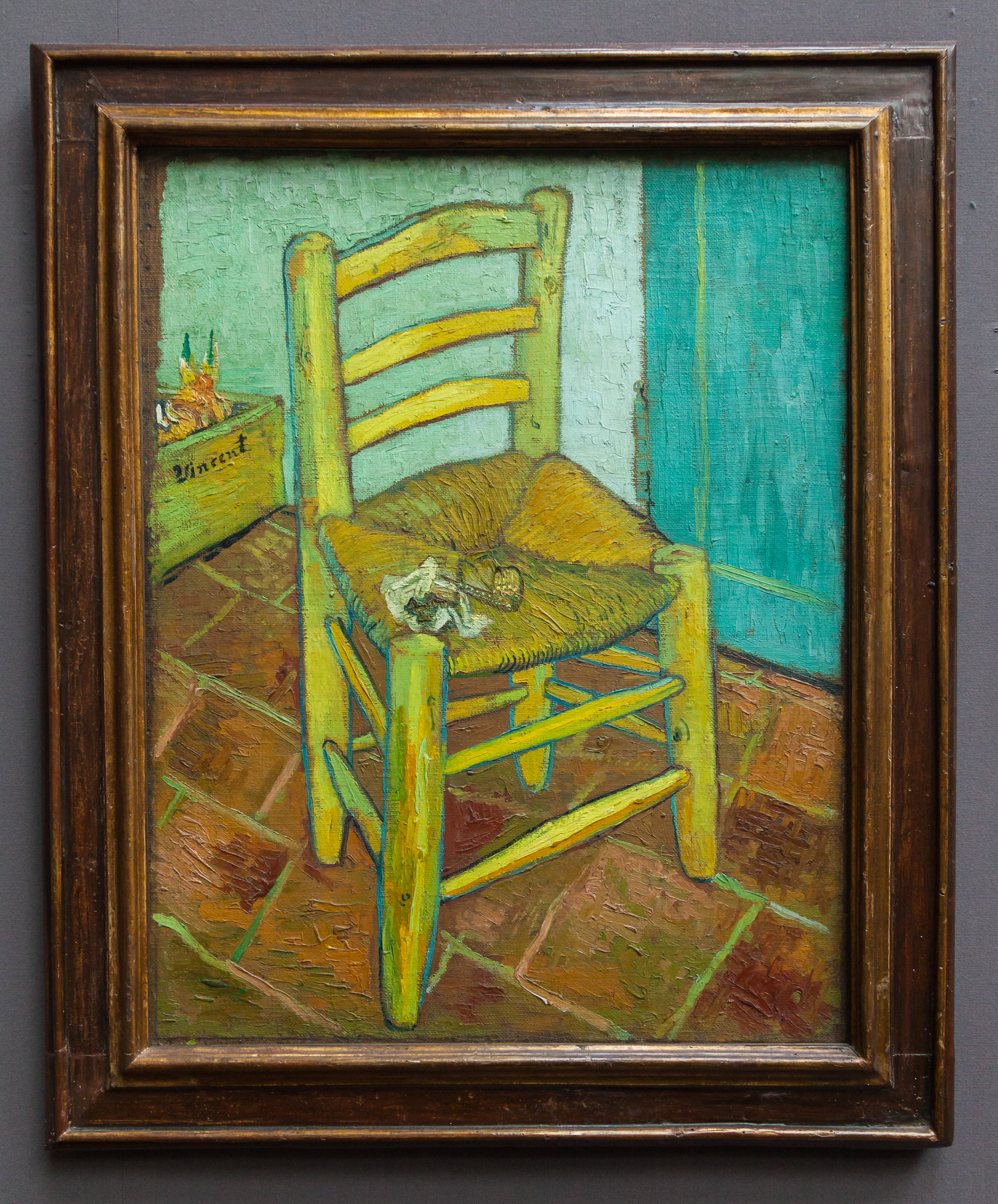 Chair by Vincent Van Gogh, National Gallery, London, England